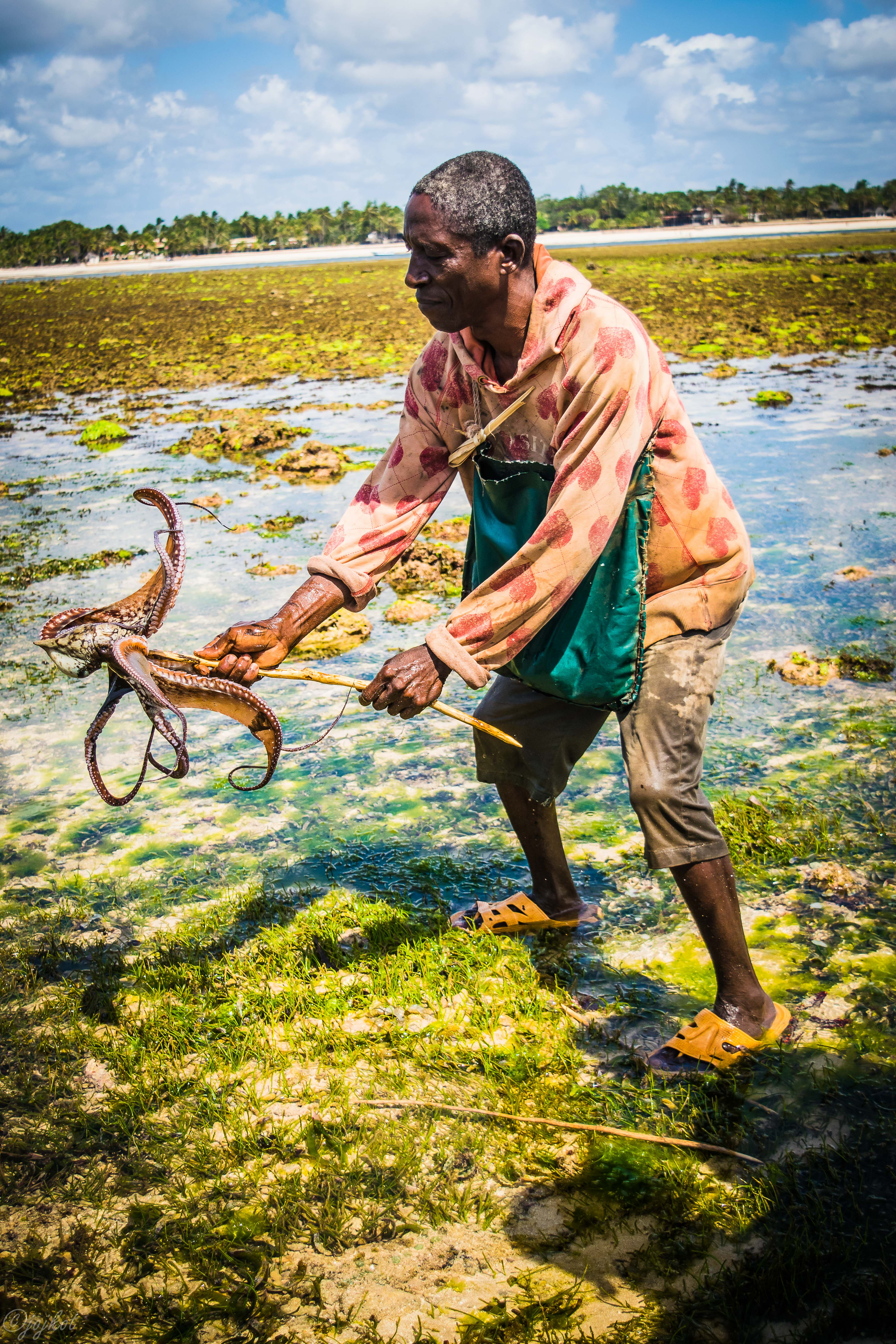 Kenya's Coastal region thrives on tourism and the fishing activities of the locals. During the low tourism seasons, the locals focus more on fishing as an income generating activity. Octopus fishing is executed in the simplest of ways. During low tides, the fishermen scout the reef poking into the crevasses with sticks to draw out the octopuses. When they find one, they aggressively pierce it with the stick and draw it out of the water then slap its head to kill it. A blackish blood-like fluid explodes out of the octopus as it dies slowly. The fisherman then stores the catch in his plastic pouch and the hunt continues! This is an image of "African people at work" from Kenya